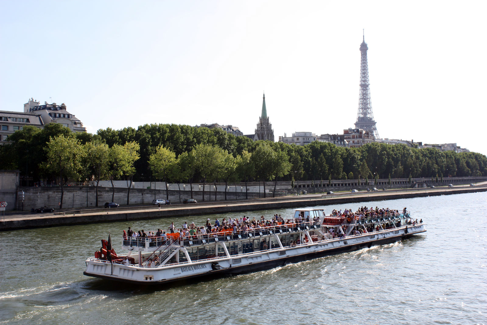 Bateaux-Mouche "La Galère" from the Invalides bridge. On the back we can see the Eiffel Tower.